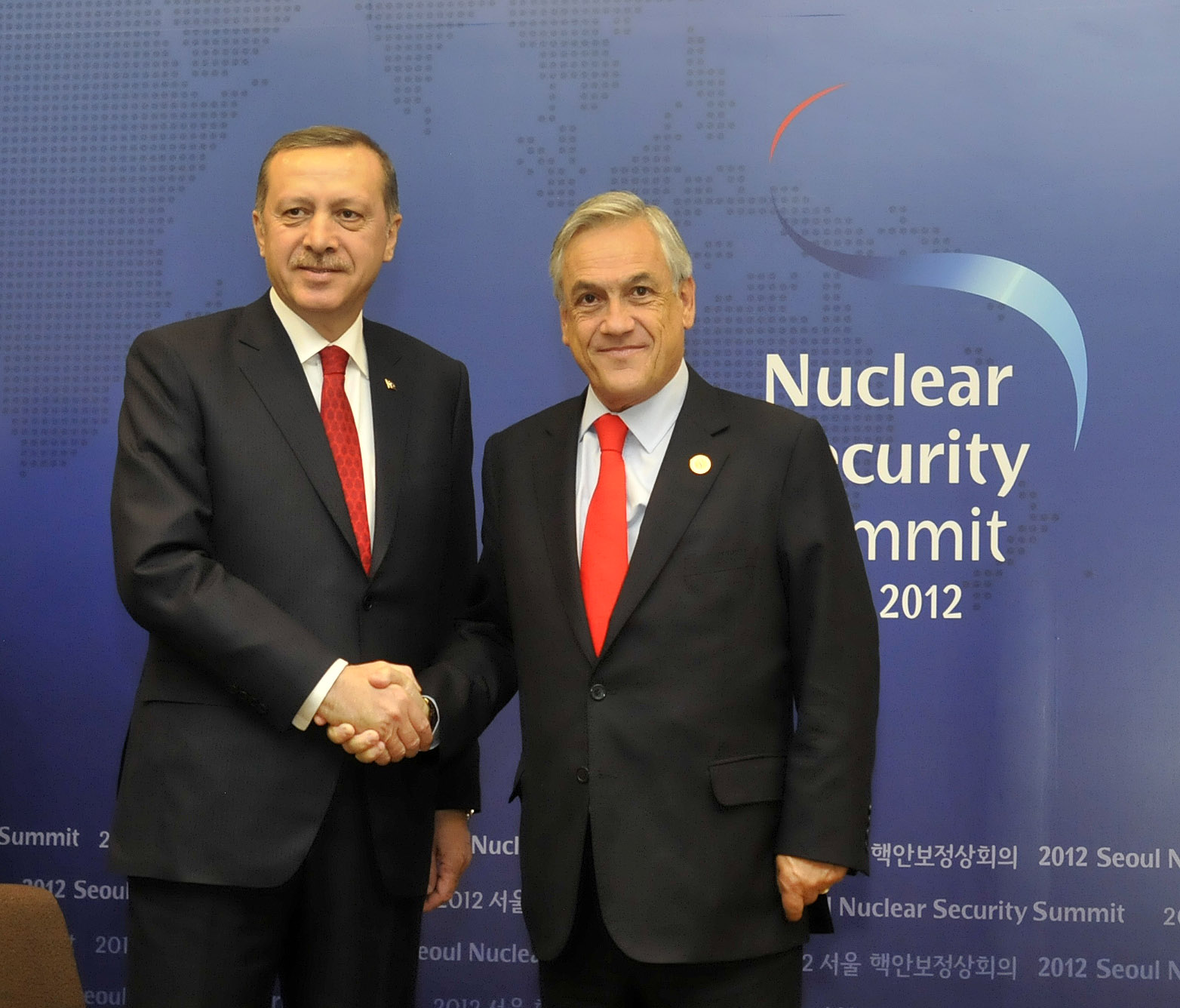 The President of Chile, Sebastián Piñera, had a bilateral meeting with the Prime Minister of Turkey, Recep Tayyip Erdogan, on the occasion of the Second Nuclear Security Summit, which is taking place in Seoul, Korea.